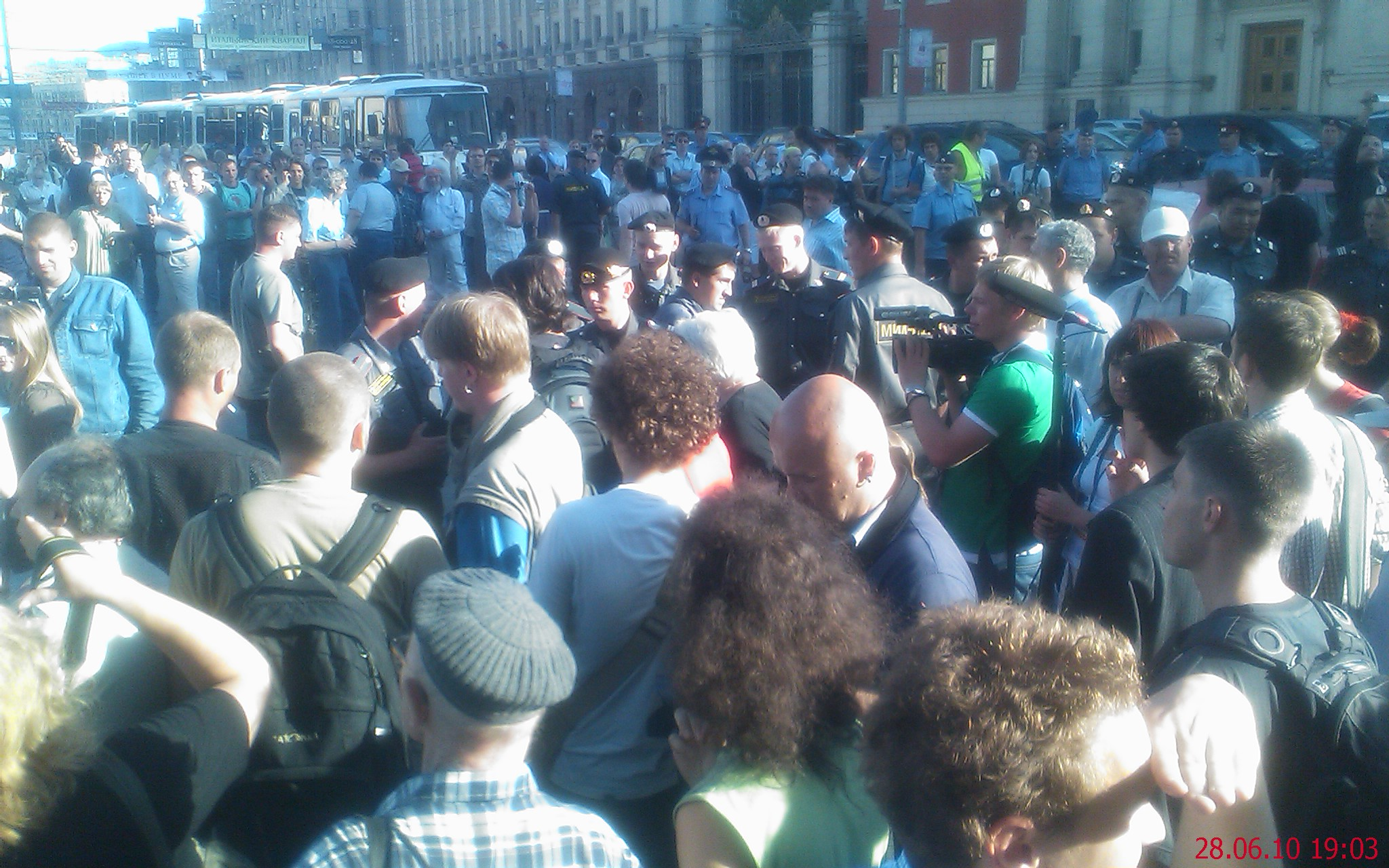 Moscow Militsiya breaks up anti-Luzhkov rally "Wrath Day" on 2010-06-28